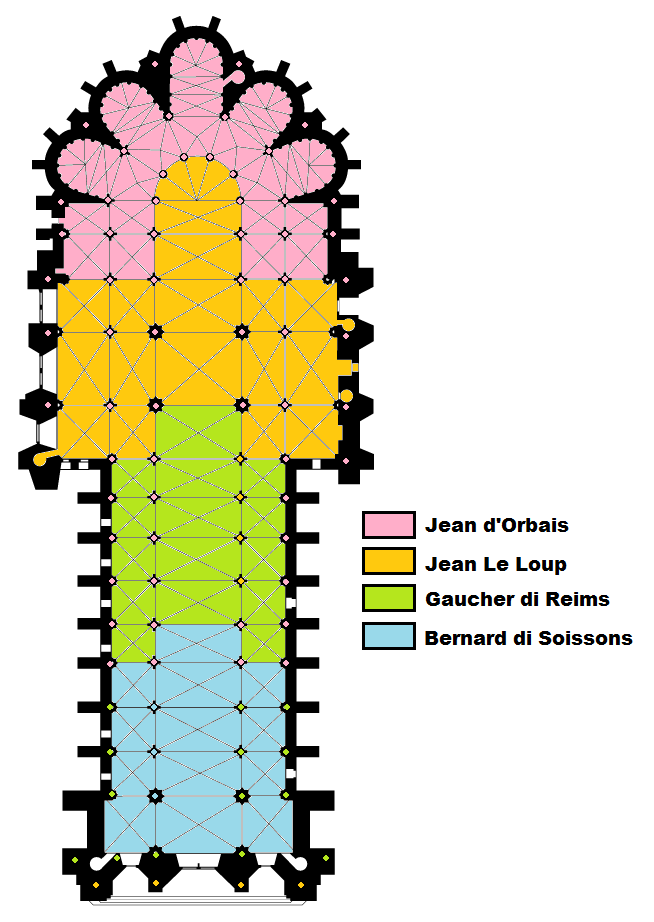 Plans of Cathédrale Notre-Dame de Reims whit part make by Jean Orbais , Jean Le Loup , Gaucher di Reims and Bernard di Soissons